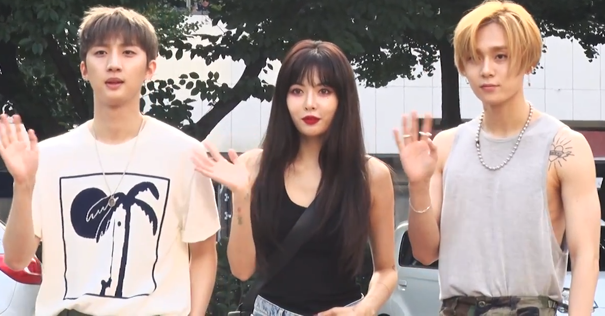 Triple H going to a Music Bank recording on July 22, 2018.